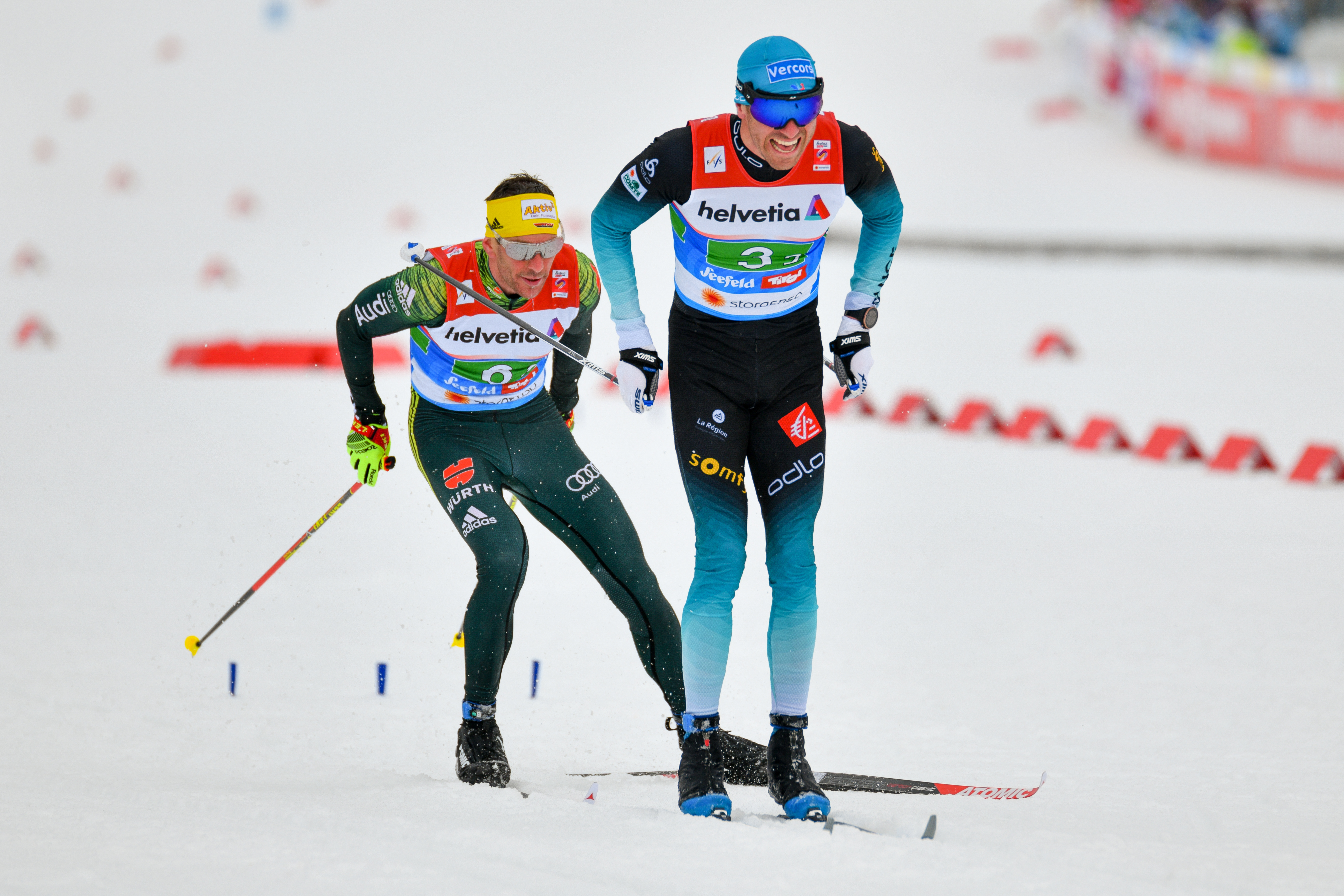 FIS Nordic World Ski Championships Seefeld 2019 - Men 4x10km Relay Classic/Free. Picture shows Andreas Katz (GER), Maurice Manificat (FRA).